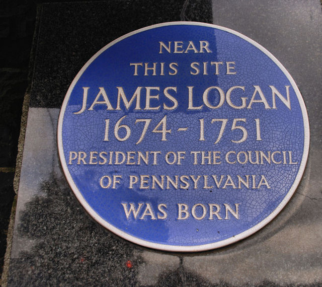 James Logan plaque, Lurgan Born in Lurgan, the young James Logan and his family moved to Bristol in 1689. 1699 he sailed to Pennsylvania as secretary to William Penn. His career included spells as Mayor of Philadelphia, Chief Justice, Acting Governor and President of the Council of Pennsylvania. The plaque is on a house almost opposite Malcolm Road. Note: this plaque existed long before the Ulster History Circle began erecting its blue plaques.